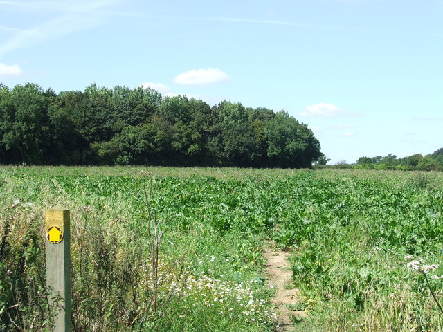 Footpath To Cowper's Wood Footpath across a crop of sugar beet field with Cowper's Wood in the distance near to Boxford Suffolk.